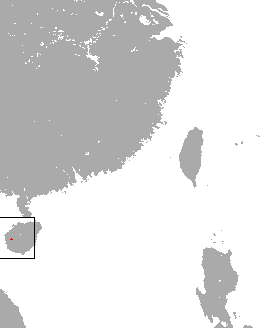 Hainan Black Crested Gibbon (Nomascus nasutus hainanus) range